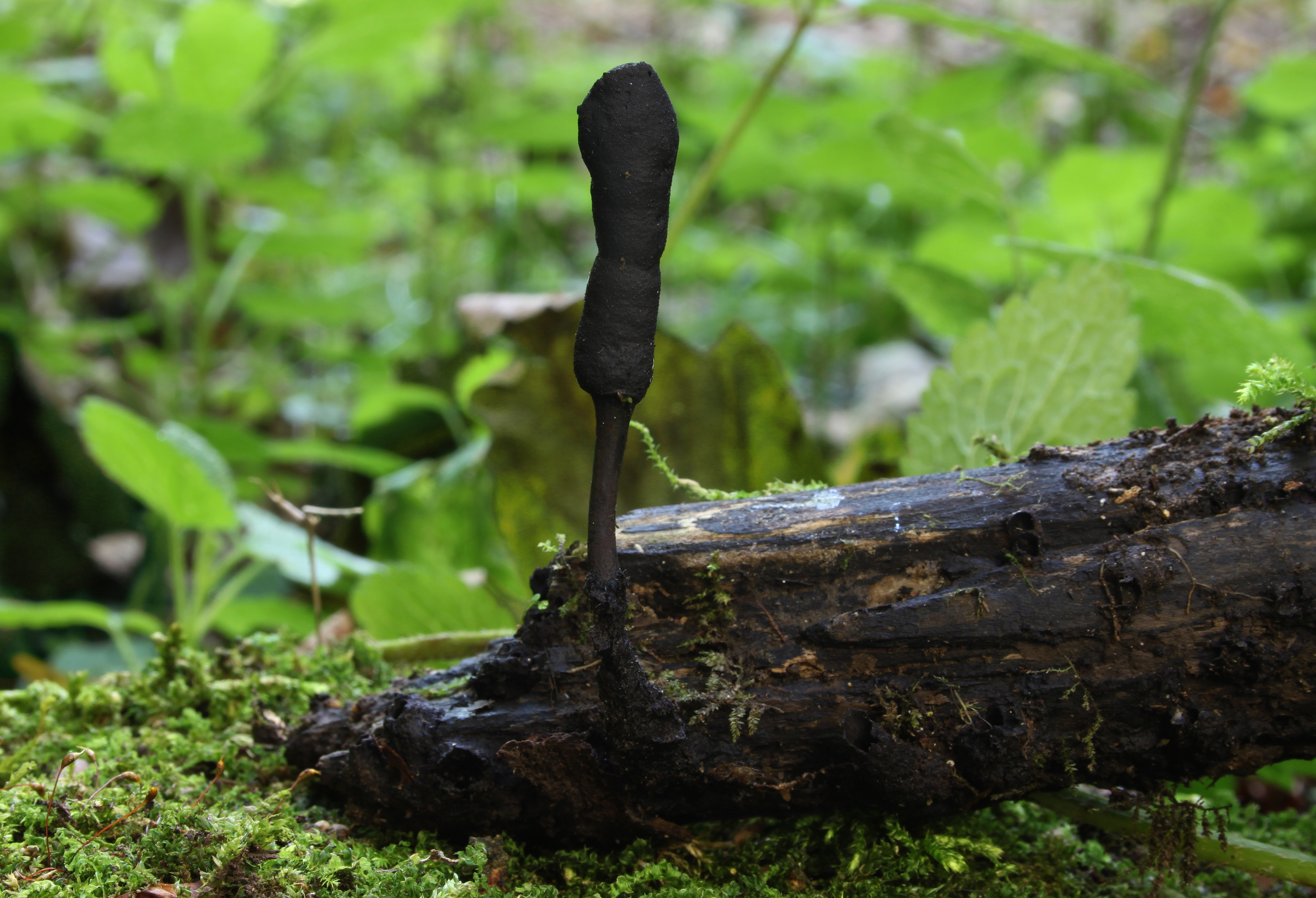 Xylaria longipes, Family: Xylariaceae, Location: Germany, Lauterach